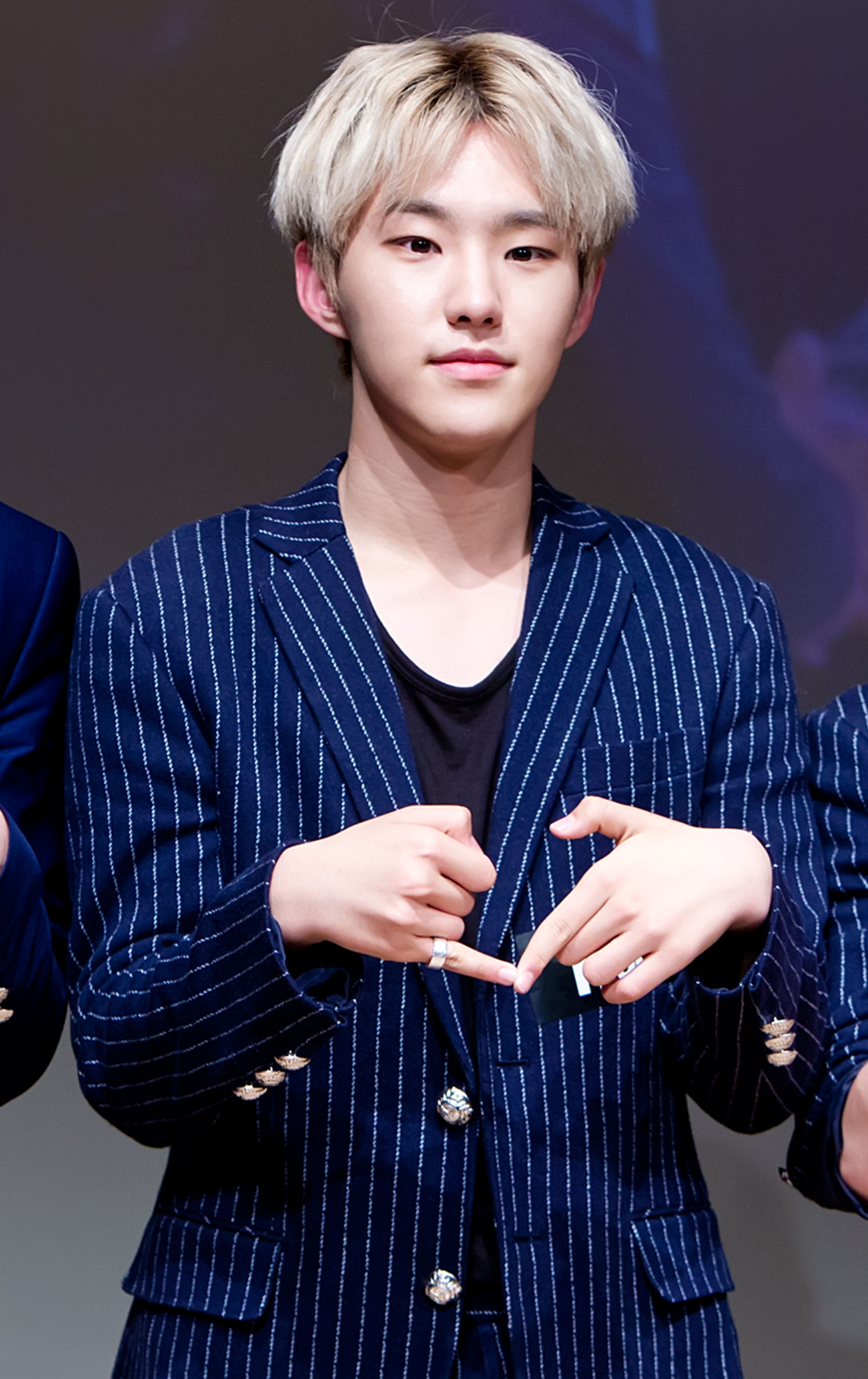 Hoshi during a fansign in Yongsan-gu on October 18, 2015.